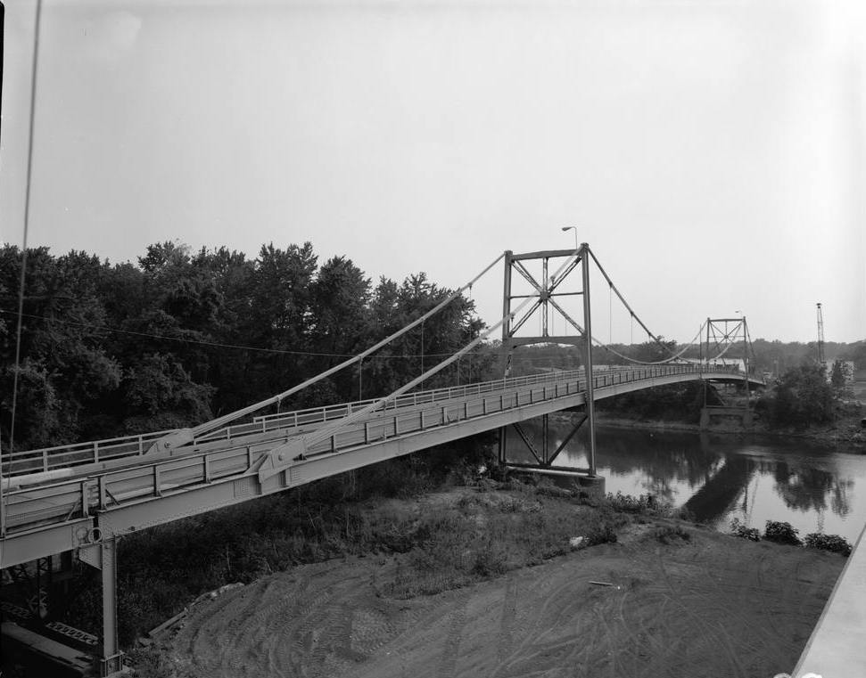 Hutsonville Bridge image, showing self anchored cables, retrieved from Historic American Engineering Record